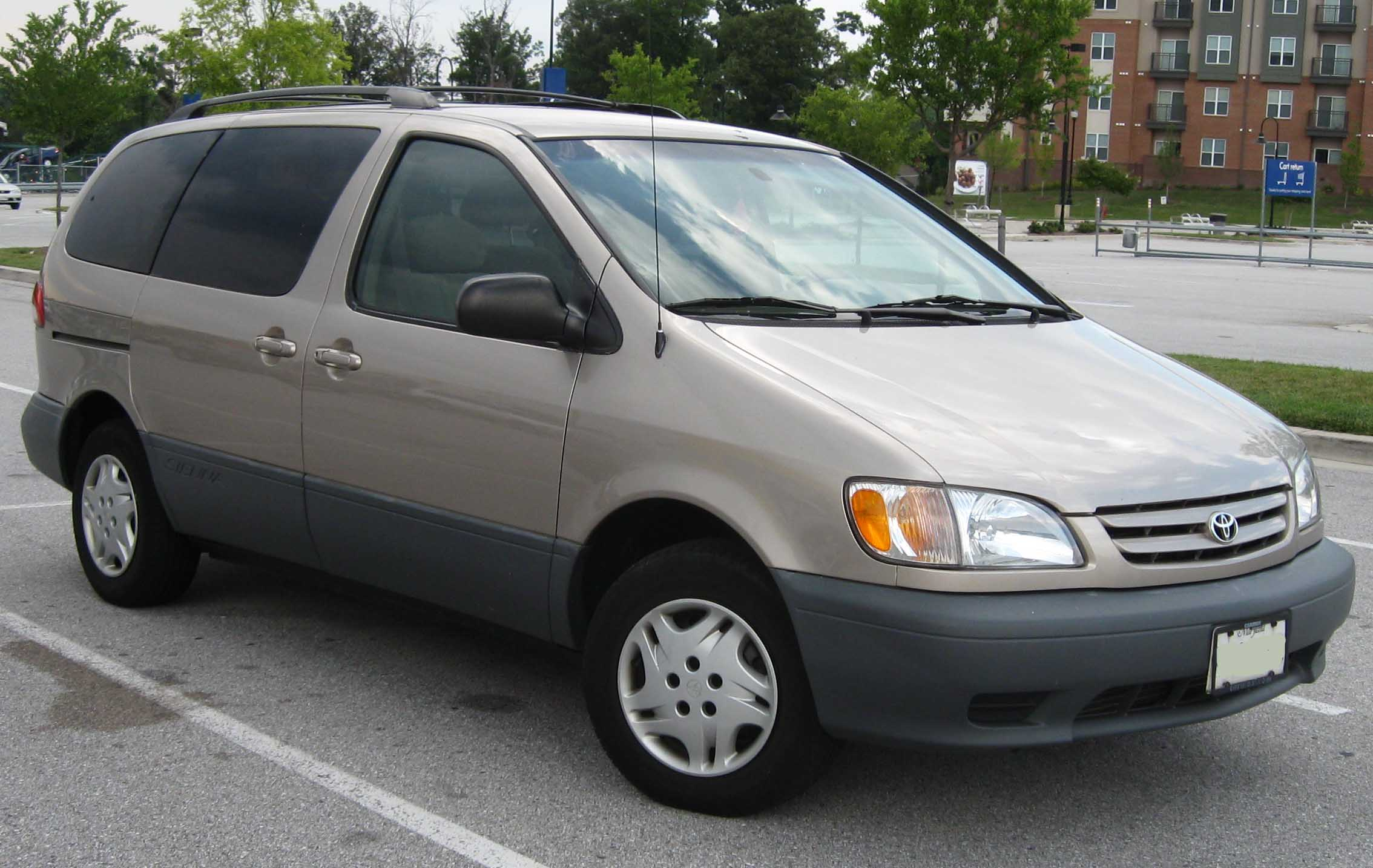 2001-2003 Toyota Sienna photographed in College Park, Maryland, USA.